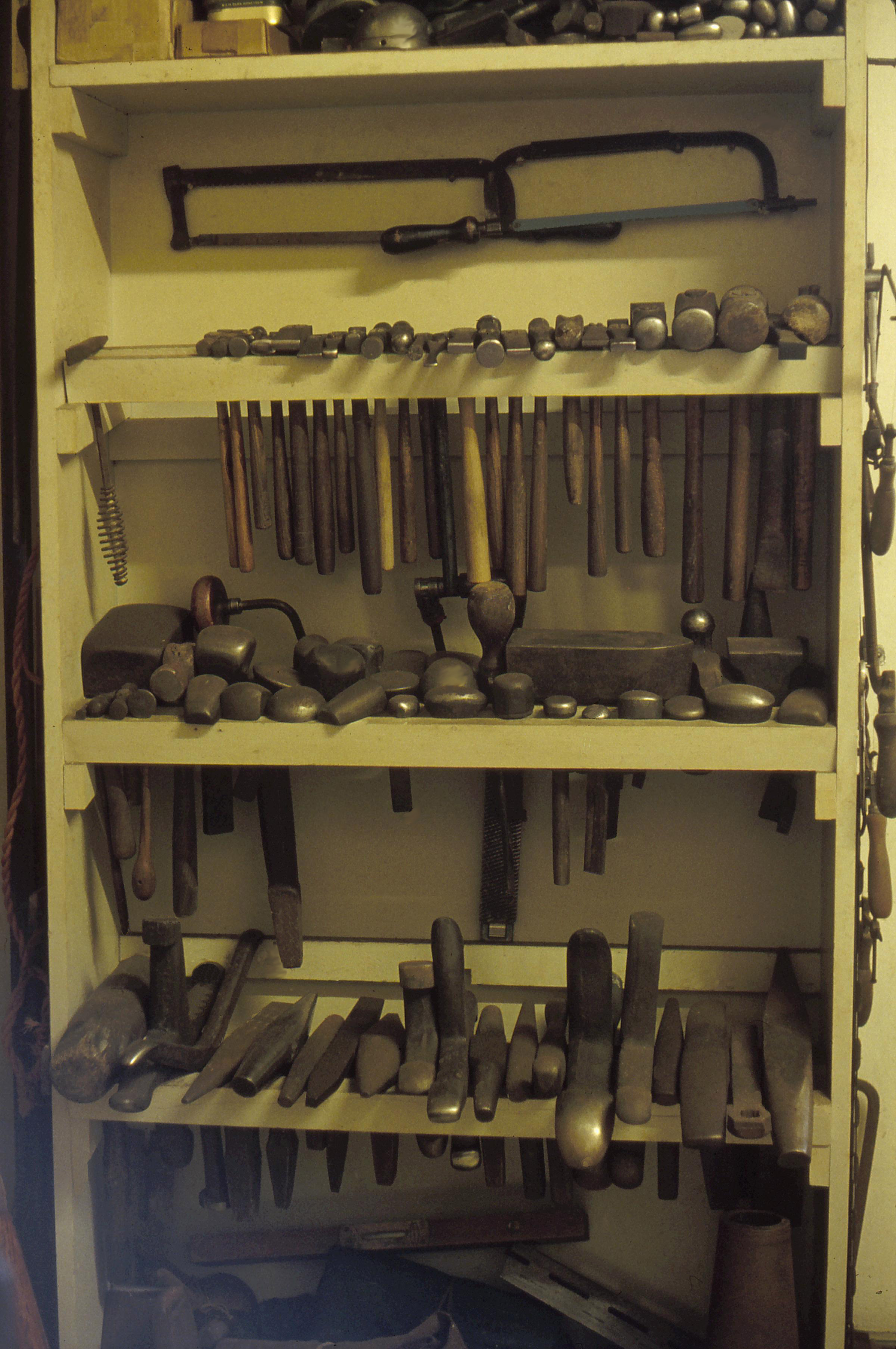 stakes and hammers used by British silversmith Robert Stone, 1981